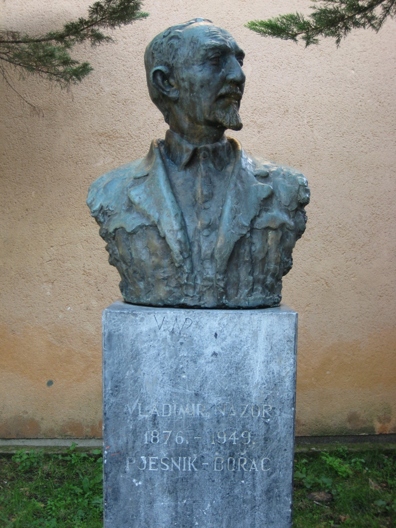 Bust of Vladimir Nazor, author Zvonko Car, Crikvenica, Croatia